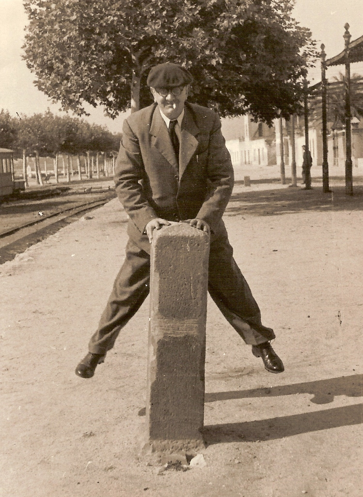 Photo of Manuel Brunet (catalan writer)